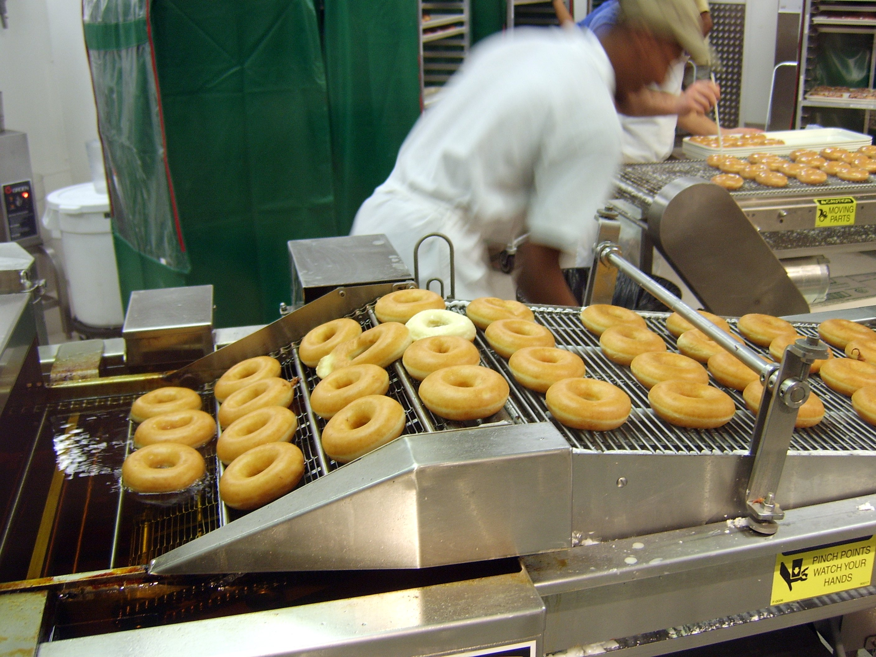 Selfridges has a Krispy Kreme Doughnut shop which has its own doughnut production line thing. Tasty.